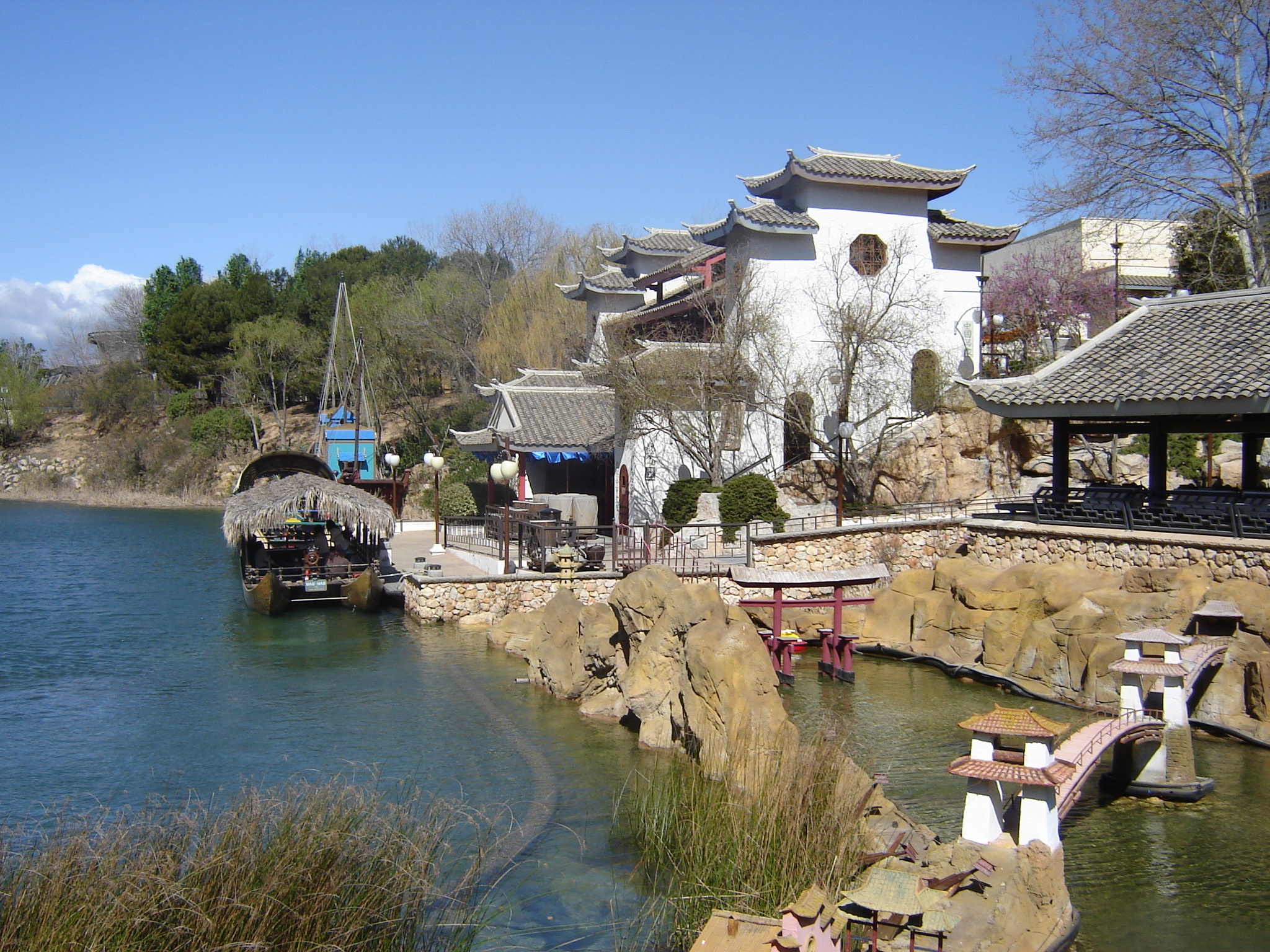 Waitan Port in Port Aventura.